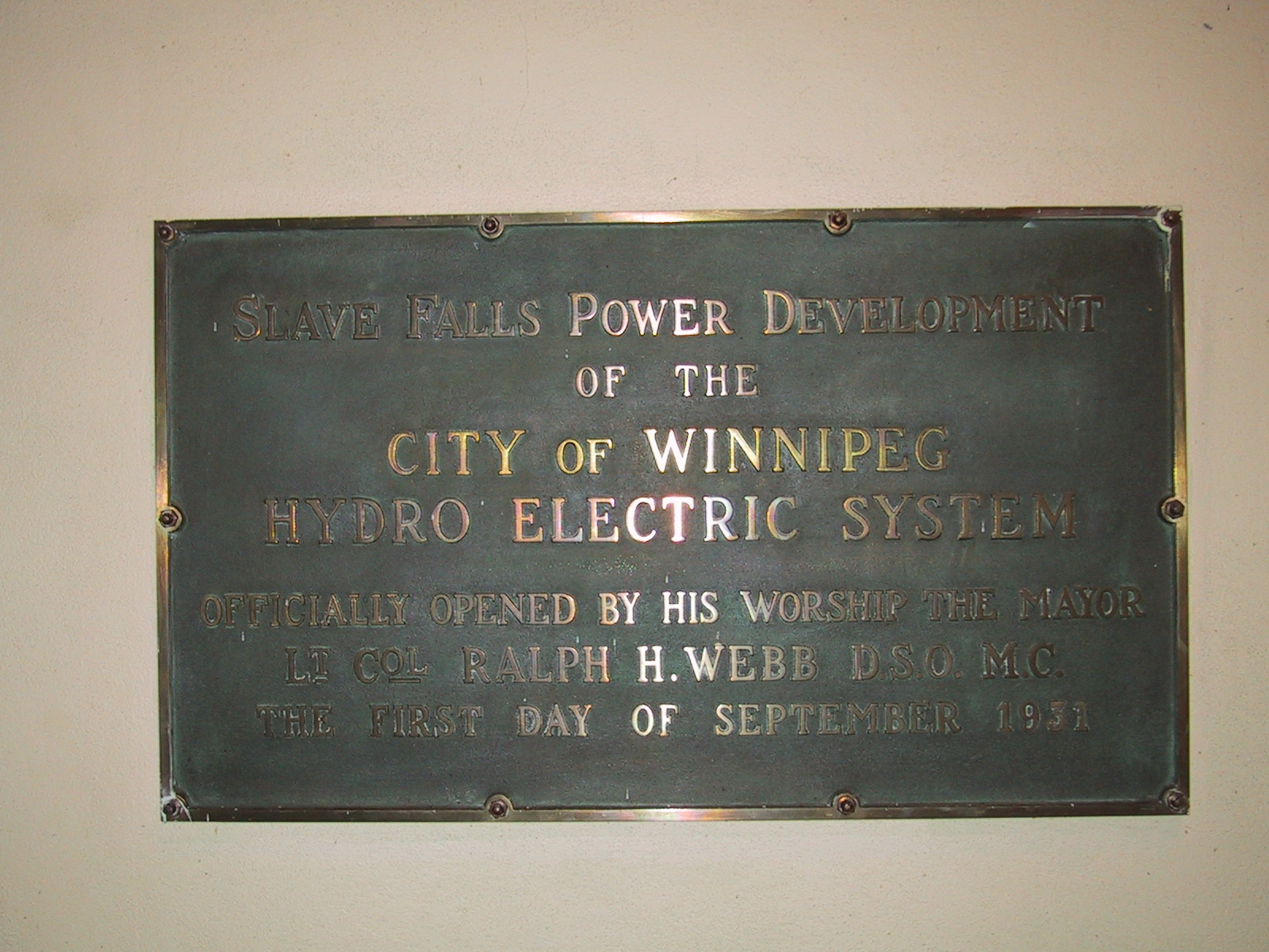 Dedication plaque at Slave Falls Generating Station, now owned by Manitoba Hydro. The station was built in 1931 for the City of Winnipeg municipal electrical utility.